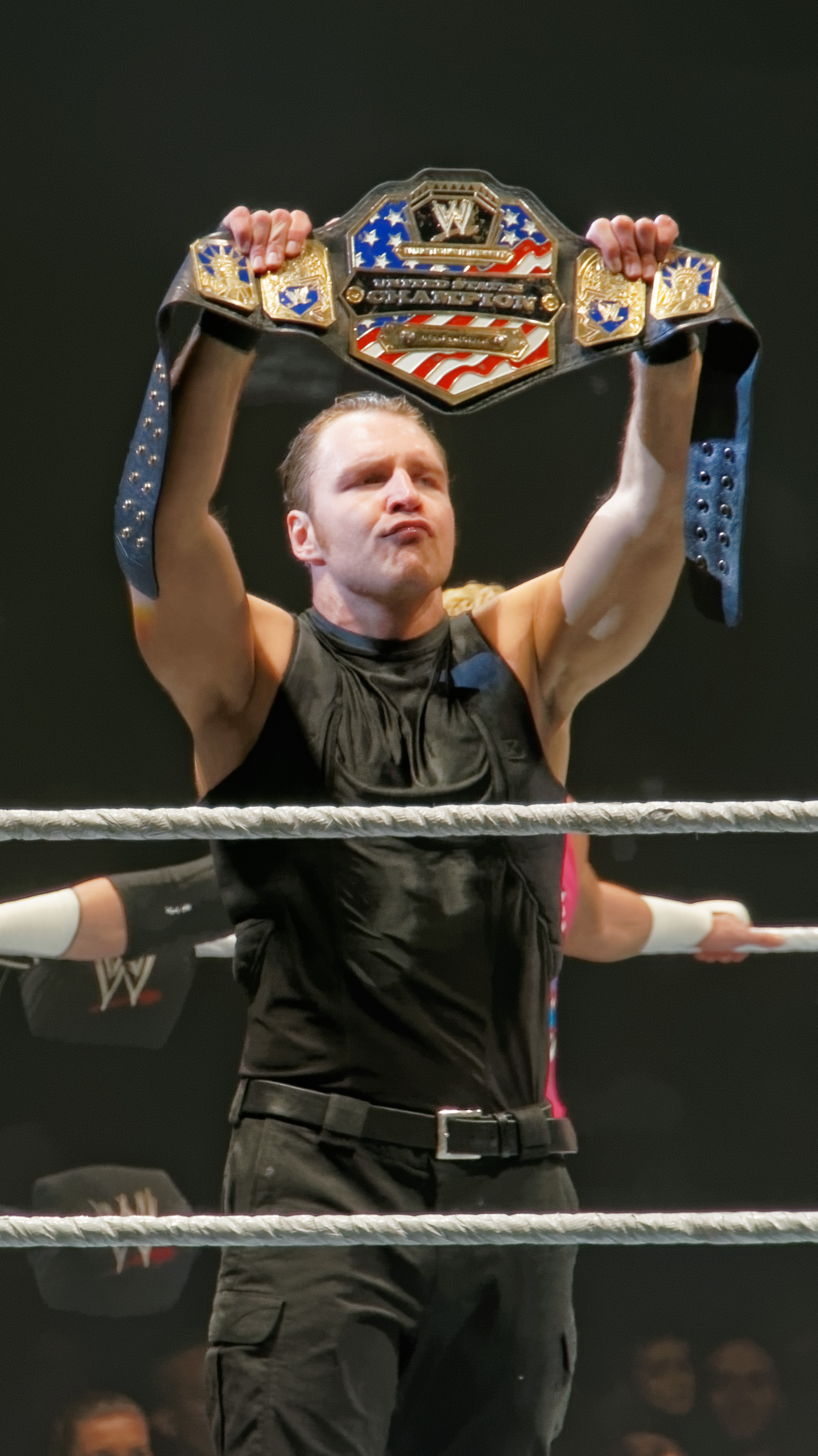 Dean Ambrose (aka Jon Moxley/Jonathan Good) posing with the WWE United States Championship prior to a match on November 8, 2013.